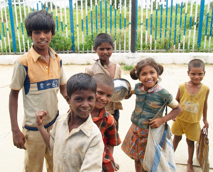 Children at Gundla Pochampally railway station Medak, Dist. Kids aged seven to 10 were seeking alms on platform.